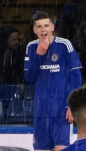 Mason Mount during the FA Youth Cup in 2016